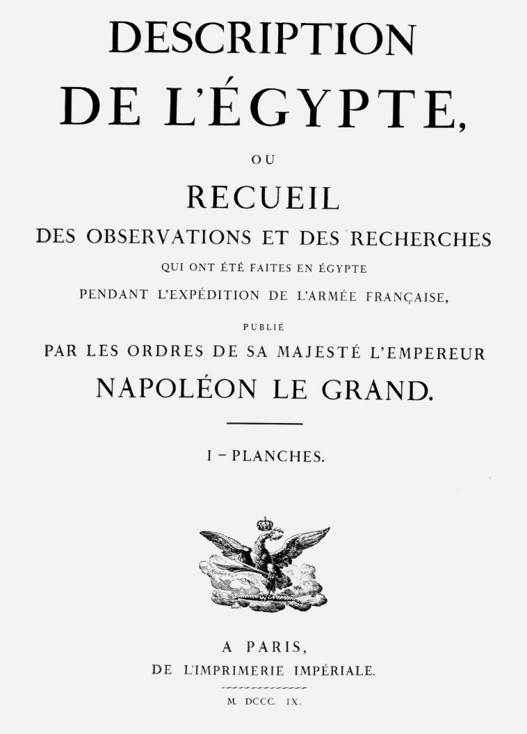 "Description de l´Egypte" (Description of Egypt). Title-page.